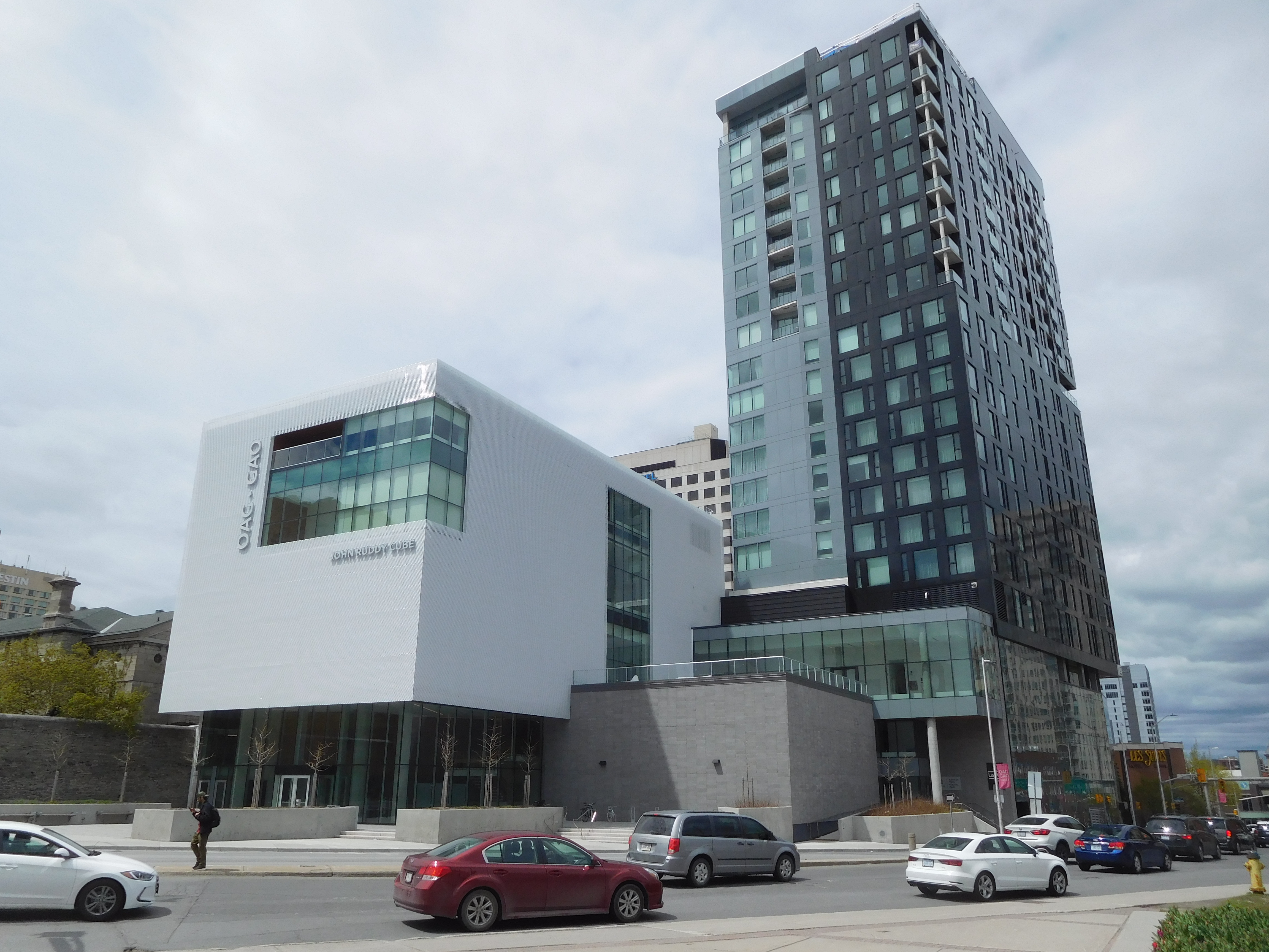 Ottawa Art Gallery (John Ruddy Cube) and Le Germain Hotel Ottawa